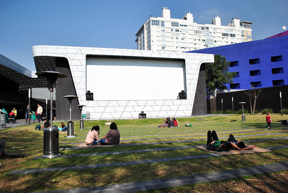 The Cineteca Nacional is an institution dedicated to the preservation, cataloging, exhibition and dissemination of cinema in Mexico. It is under the CONACULTA (National Council for Culture and the Arts). Located in Mexico, it is part of the International Federation of Film Archives.